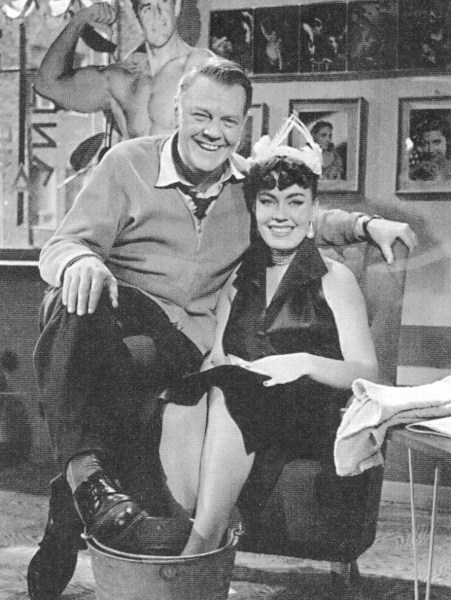 Director Valentin Vaala and actress Leila Lampi in the film "Minä ja mieheni morsian".